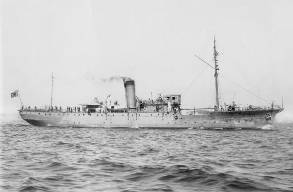 IJN Komahashi off Yokosuka.